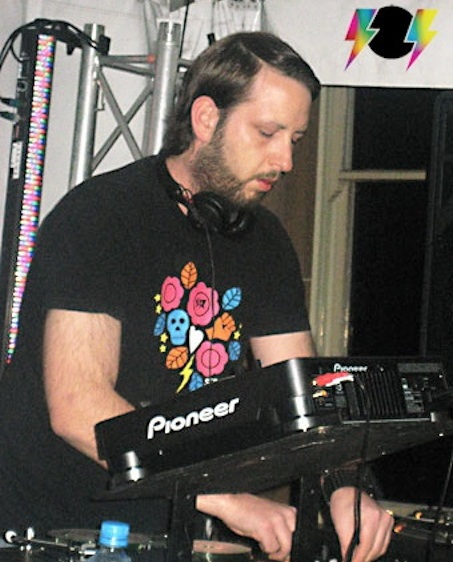 DJ Delicious playing @ Sounds On Sunday, Sydney, Australia